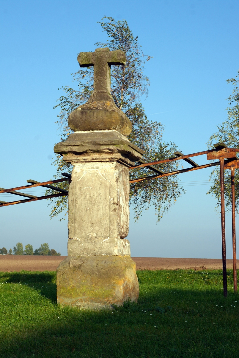 Wayside cross on the road to Martiněvsi, Charvatce (Martiněves).